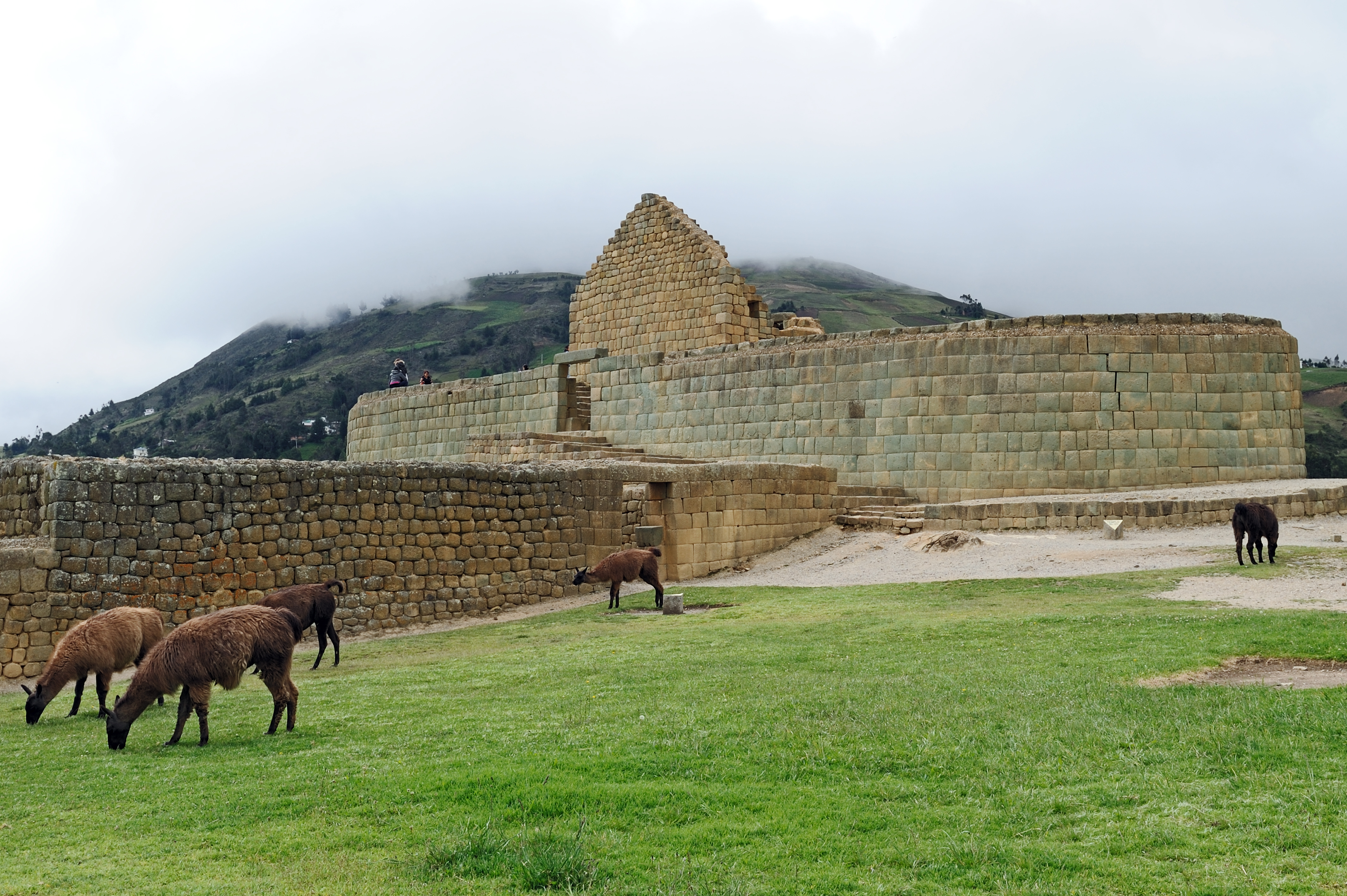 Ingapirca, Ecuador: the Incan Temple of the Sun. This is the only ovally shaped Sun temple by the Incans (all others are circular). The oval form is believed to be due to the influence of the indigenous Cañaris.